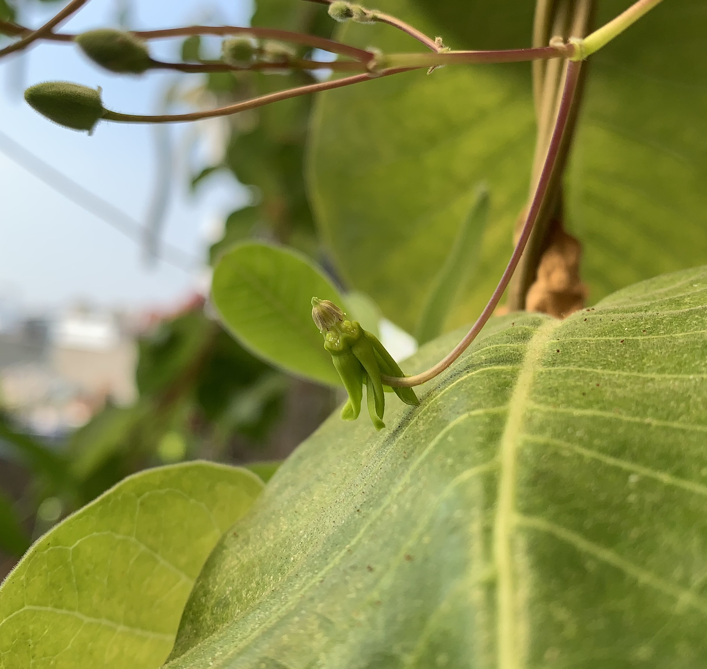 Baseonema gregorii flower